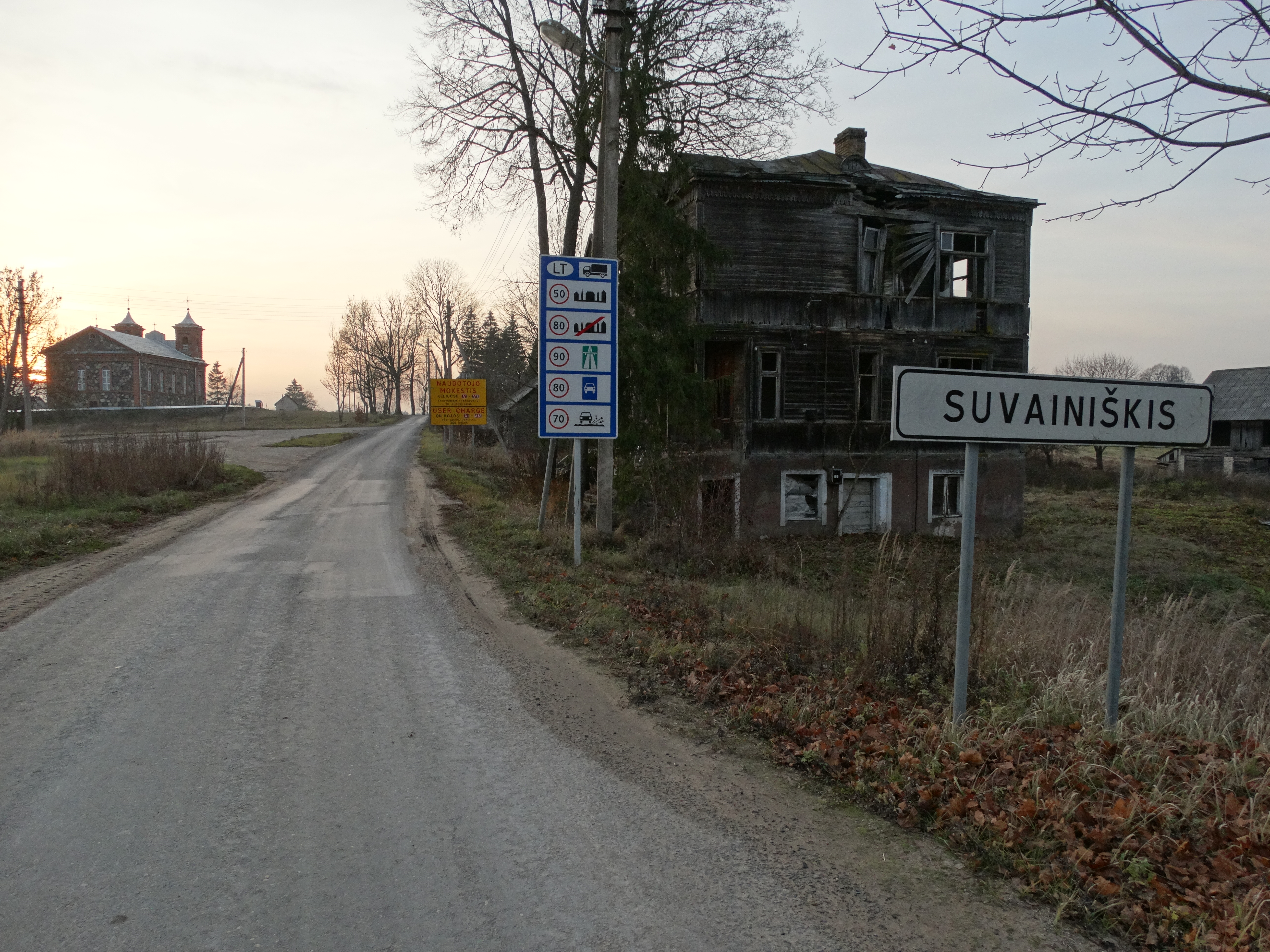 Suvainiškis, Rokiškis district, Lithuania